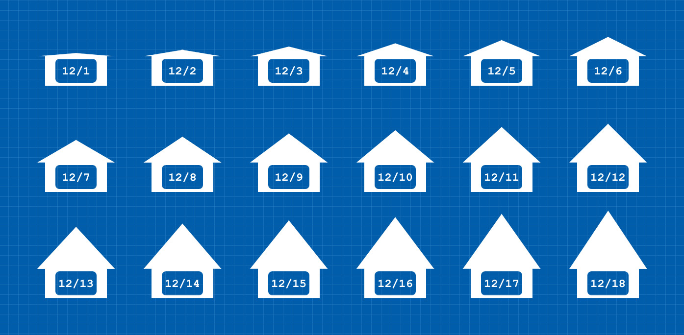 This image exhibits the different pitches (rise/run) for roofs, and the number corresponding to that pitch is displayed below the roof line. The number is spoken as "1 in 12" (for the first pitch provided). This means that for every 1 unit of rise, the roof has 12 units of run.